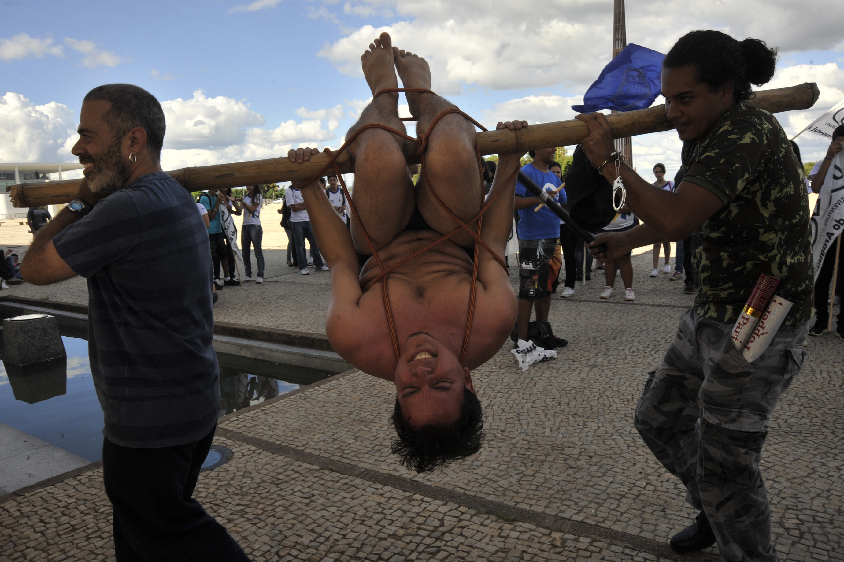 Brasília - Students protesting in front of the Supreme Federal Court against impunity for crimes of the military dictatorship. Simulation of a torture method known as pau de arara.